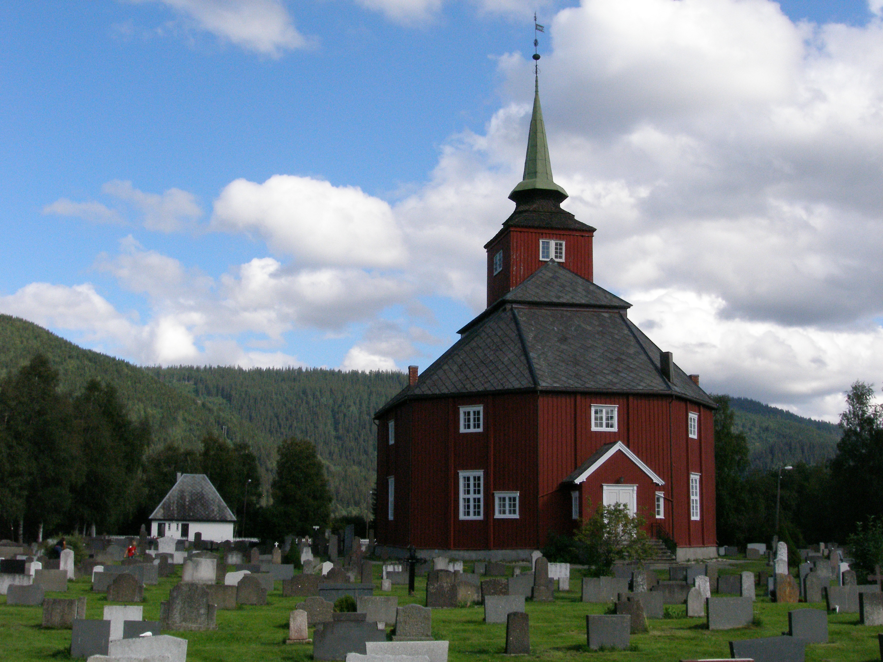 Church of Støren, Norway. Built 1816-1817.